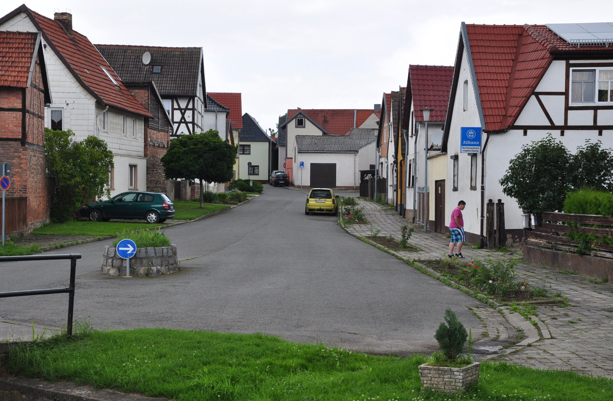 The Schluftstraße with tiny roundabout in Uftrungen (municipality Südharz, district Mansfeld-Südharz, Saxony-Anhalt, Germany).